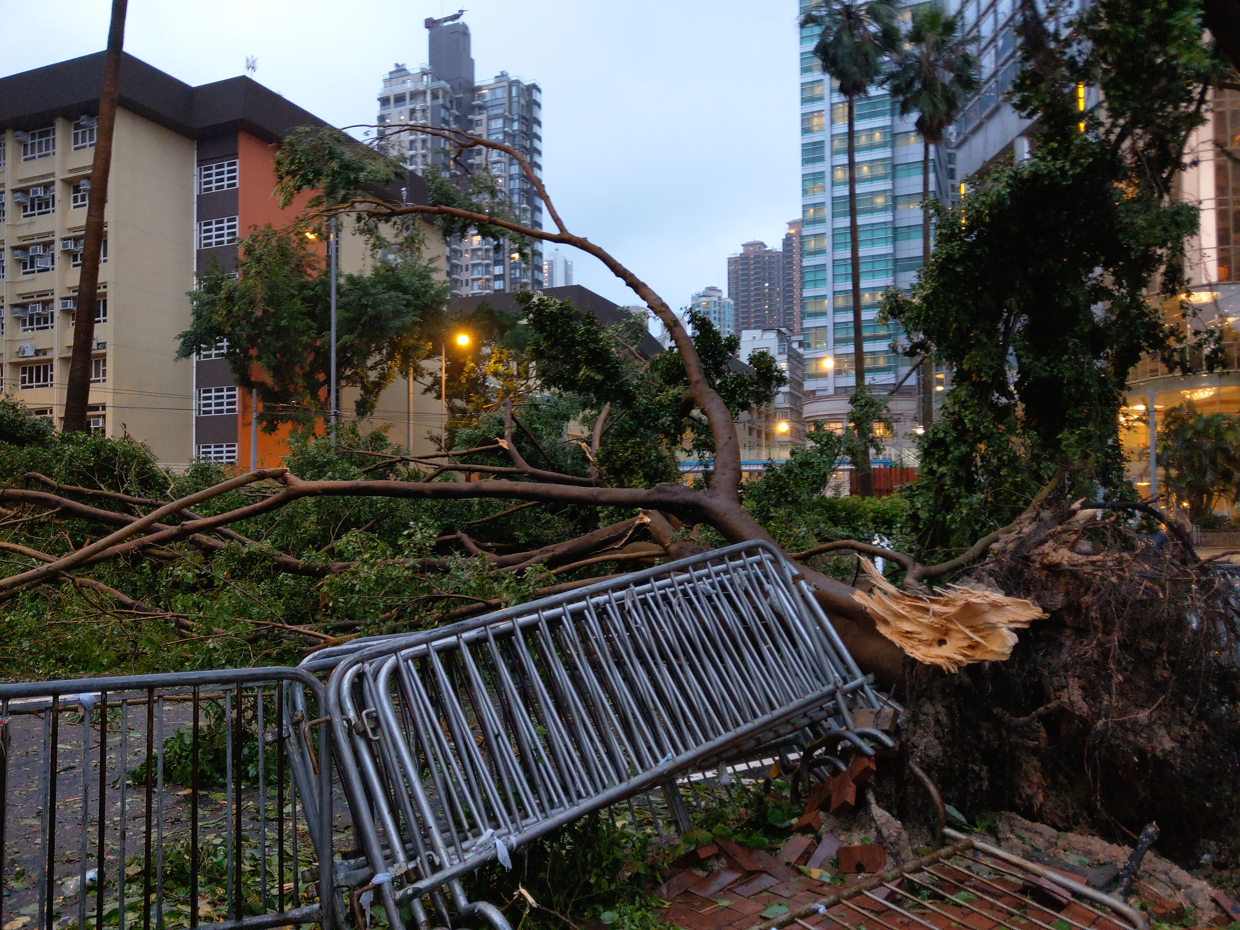 Fallen trees block Yee Wo Street in Causeway Bay, Hong Kong, after Typhoon Mangkhut.